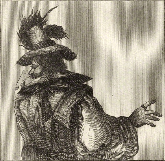 A line engraving of Robert Wintour made by Adam, published in 1794.